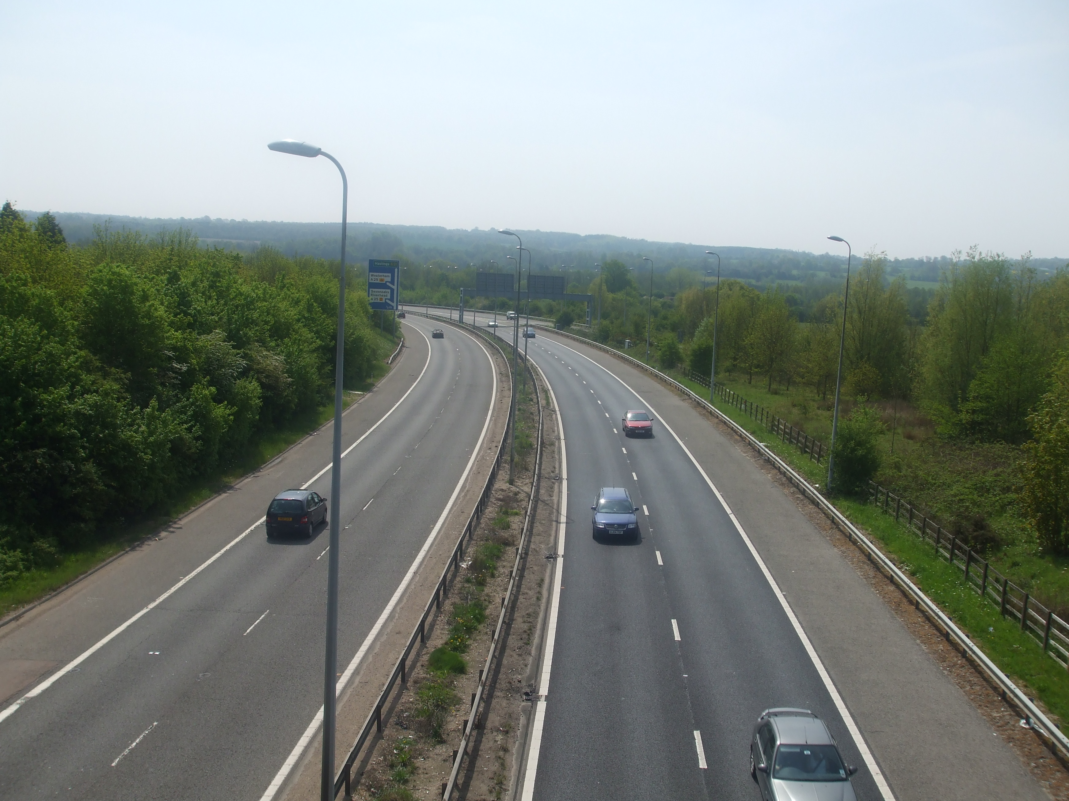 Looking south near the site of Chevening Halt Railway Station, Kent, to a point where a bridge would have carried the motorway over the line